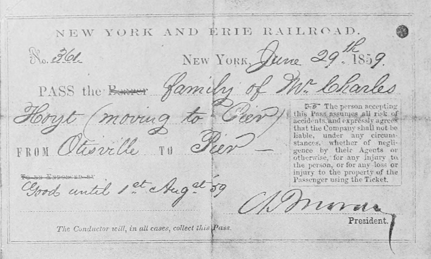 Erie Free Pass issued by Charles Moran, 1859